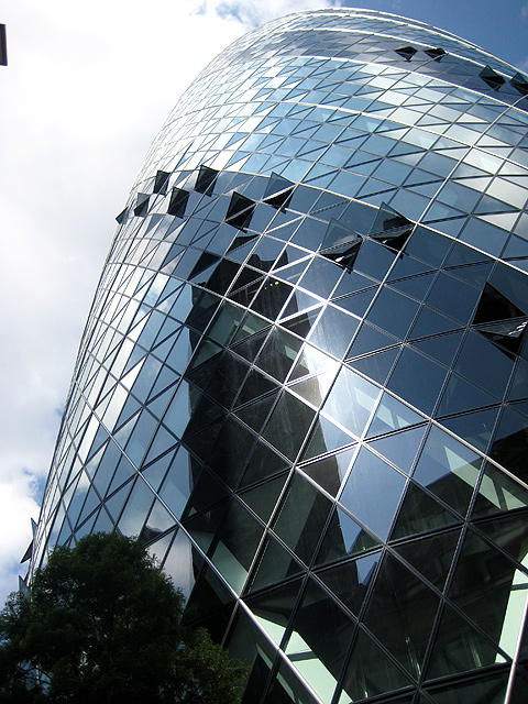 Shapes and reflections: 30 St Mary Axe On a late summer afternoon, the light and shade in the reflections on the "Gherkin" are just another variation on the changing subtleties of this iconic skyscraper in the City of London. See also 1391268 and 1391277